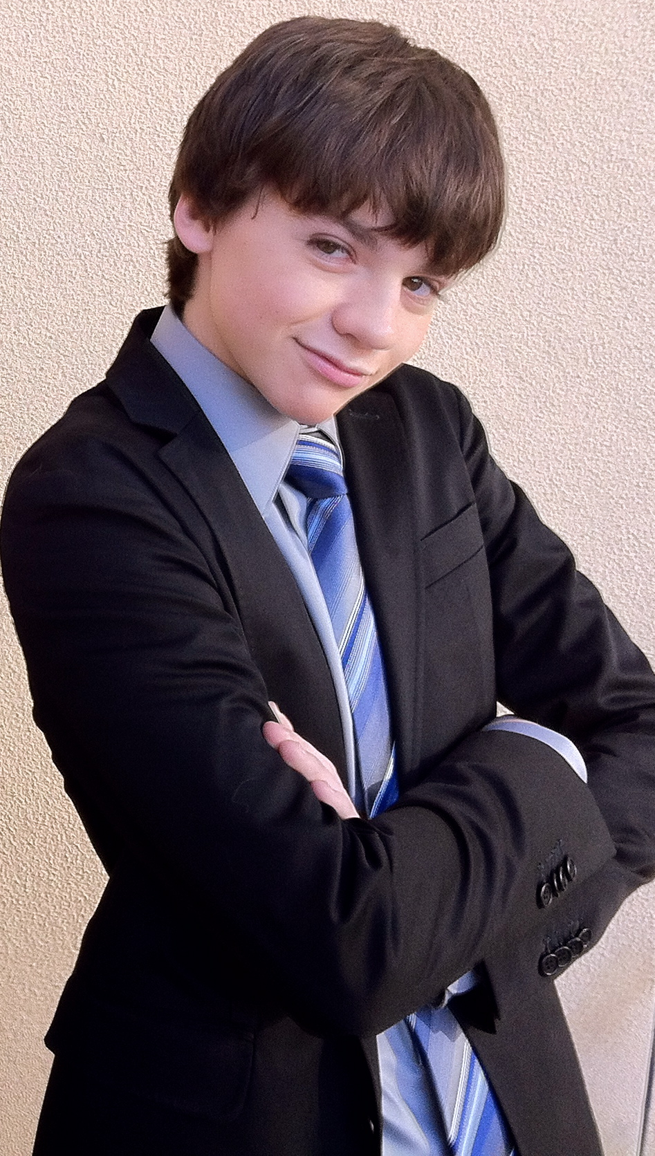 Photo of Joel Courtney prior to a red carpet event.